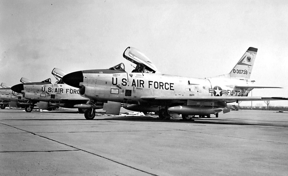 194th Fighter-Interceptor Squadron North American F-86L-60-NA Sabre 53-0739.